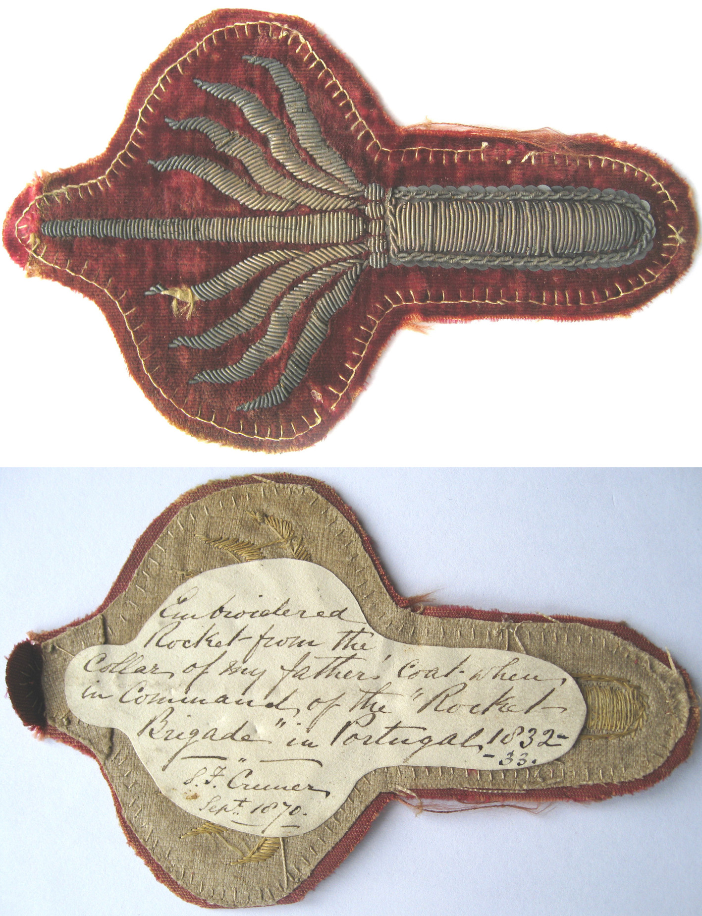 The inscription written in 1870 reads - "Embroidered Rocket from the Collar of my father's coat when in Command of the "Rocket Brigade" in Portugal 1832 - 33" S.F. Cremer, Sept. 1870 The Congrieve Rocket Brigade launched Rockets at Lisbon in 1832 -33 from British ships off the coast. My Great Great Grandfather Christopher Brandon was the Commander of these forces. Lee Brandon-Cremer